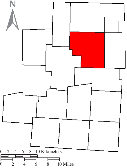 Originally created by the US Census. Modified by myself to highlight the township.